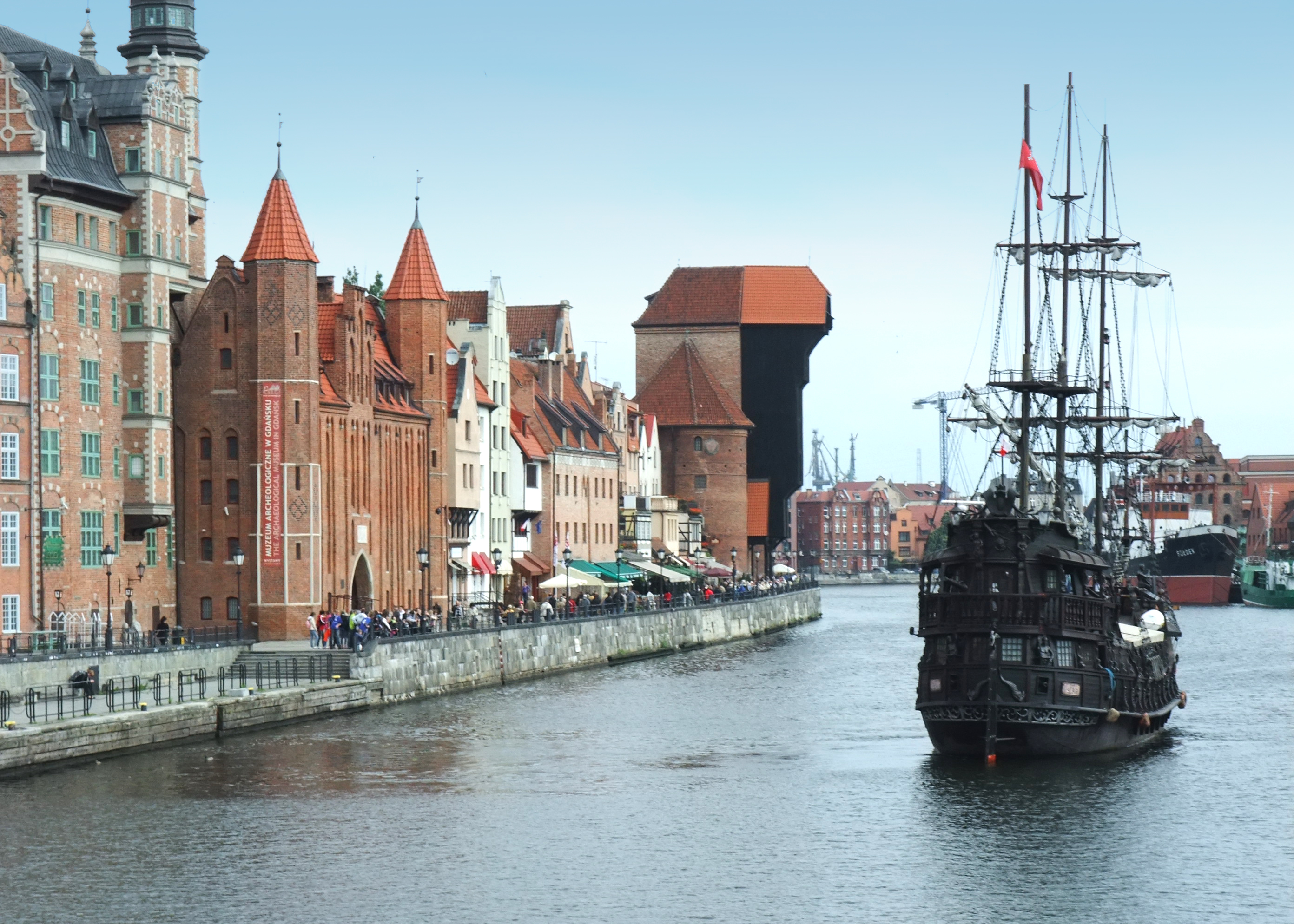 Długie Pobrzeże Street in the Main Town of Gdańsk